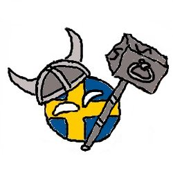 Sveaball in the Viking attire.